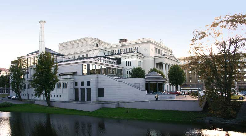 The Latvian National Opera